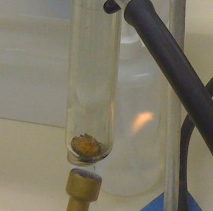 Sublimed camphor